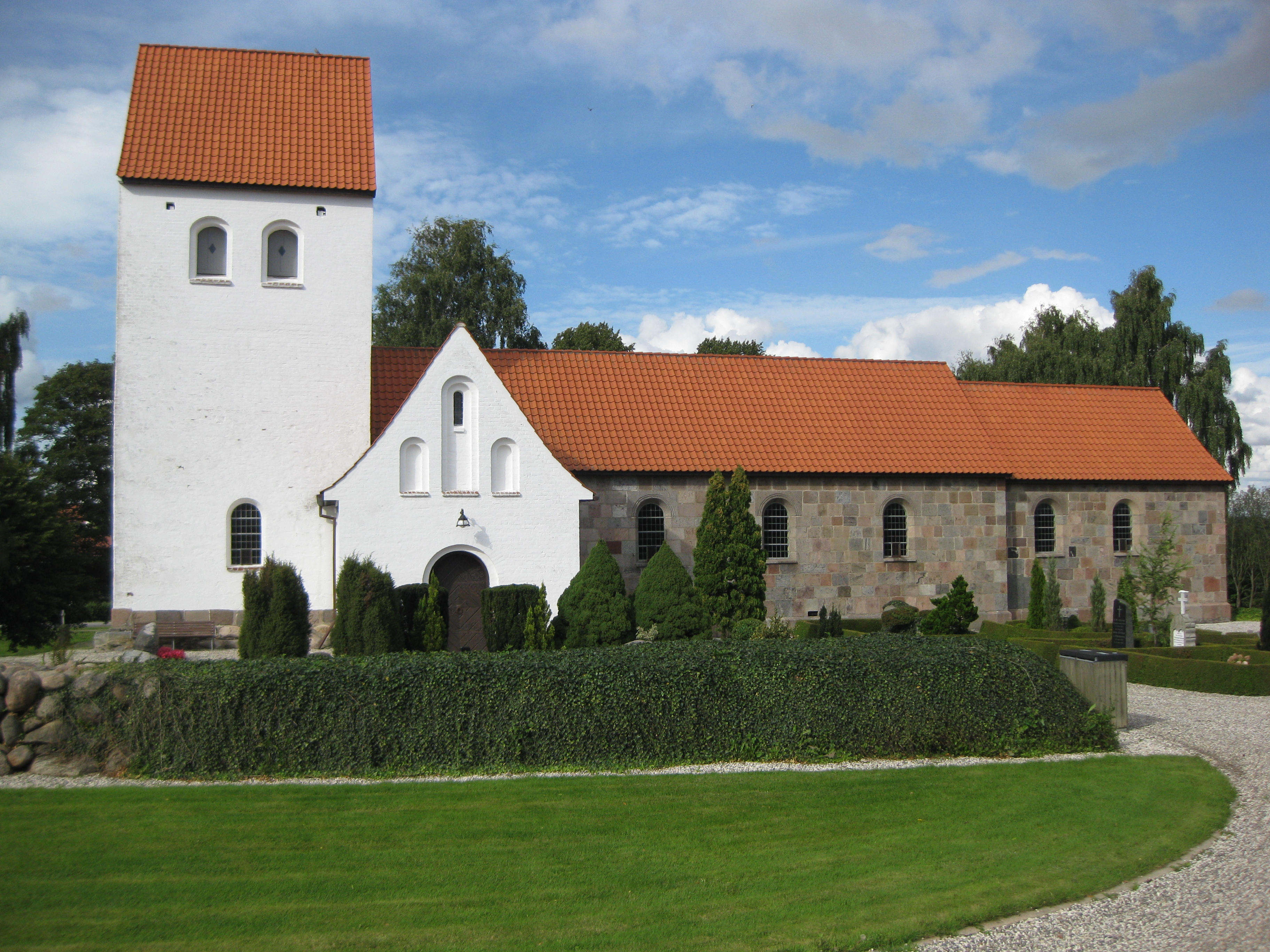 The church "Langå Kirke" in the small town "Langå". It is located in East Jutland, central Denmark.